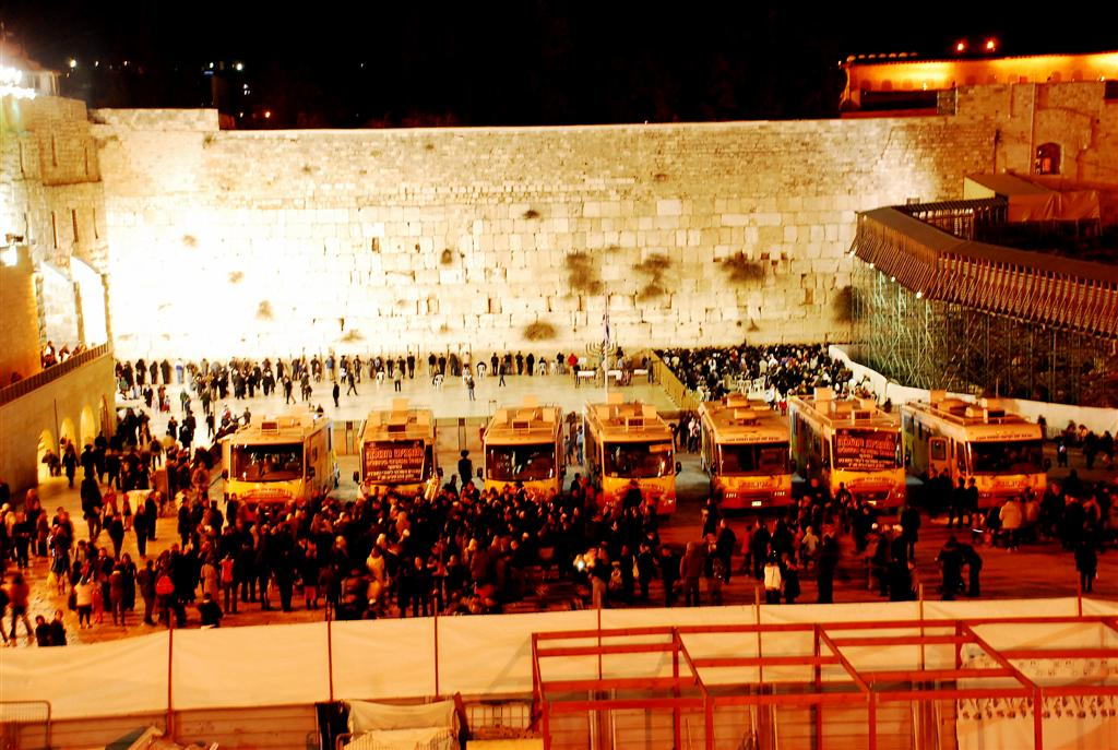 Mitzvah Tanks at the Wailing Wall during the Chanukah Parade